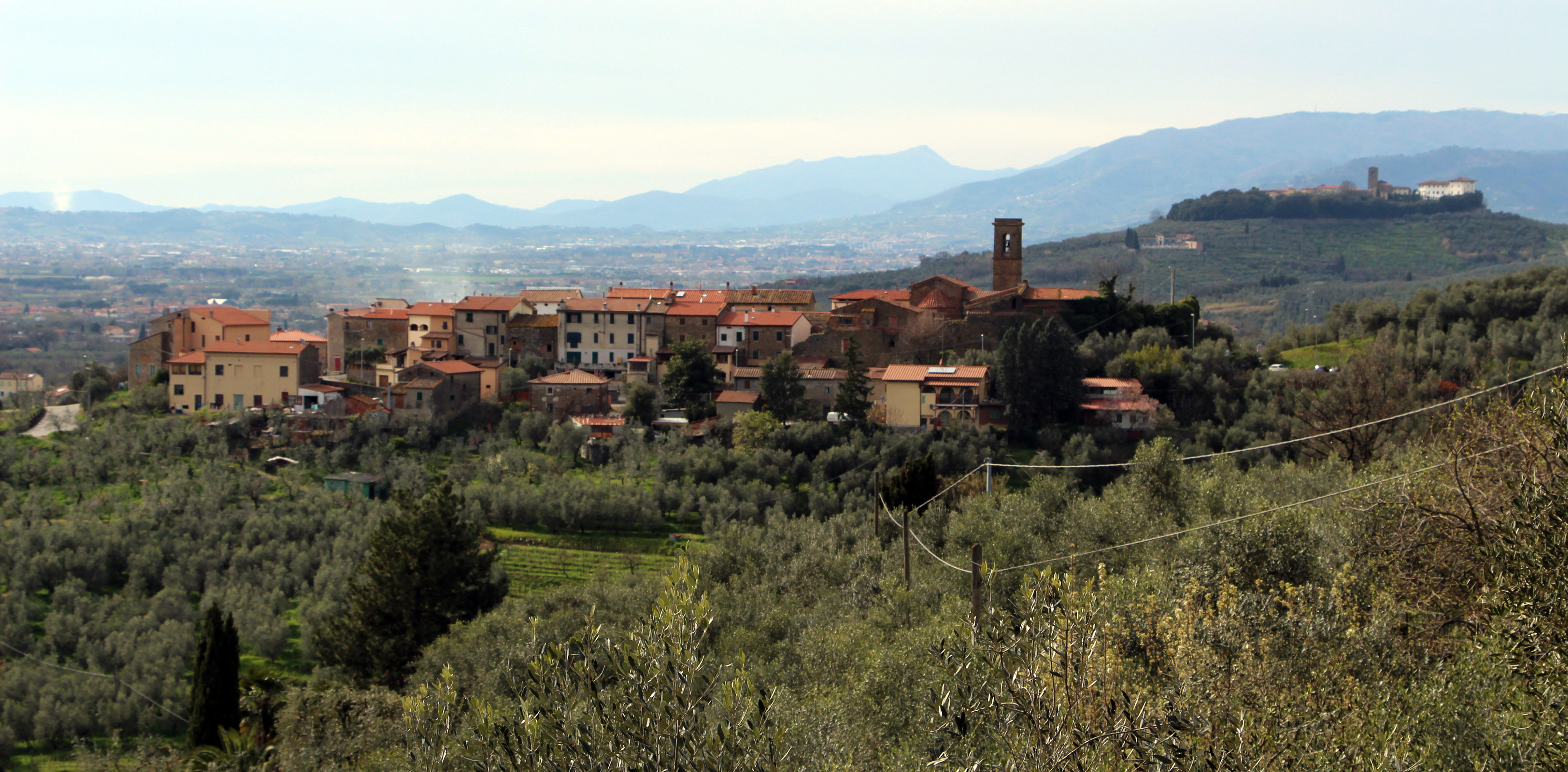 Larciano